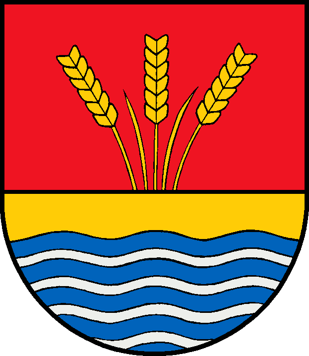 Coat of arms of the municipality Bosbüll in Schleswig-Holstein, Germany.